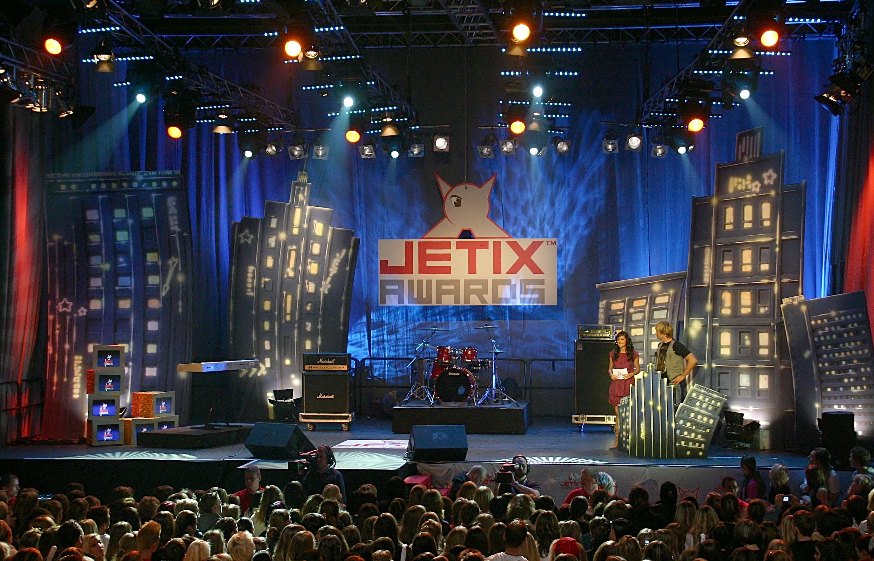 Conferment of the JETIX Award at the youth fair "YOU", Berlin